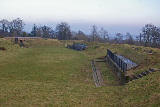 Reigate Fort. One of thirteen mobilisation centres built in the 1890s along the line of the North Downs, when concern over the ability of the British Navy to protect the coastline led to fear of a possible invasion, particularly from the French who were building up their naval strength at the time. Although known as forts, their primary purpose was as depots to supply troops with entrenching equipment and munitions in the event of invasion. However they were surrounded by banks and trenches (see 1143490 and 1143494) so they could be used as defensive positions if needed. It was decommissioned in 1906, and has been owned by the National Trust since 1932. It was used by Canadian troops in the second world war, and was for many years used by the scout movement for camps. In 2001, it was scheduled as a National Monument. It has recently been restored, including the felling of trees that had grown across the site, and since 2007 has been open for public access. In the photo can be seen the Toolshed (see 1143467), the Magazine (see 1143472 and the two Casemates (see 1143473).